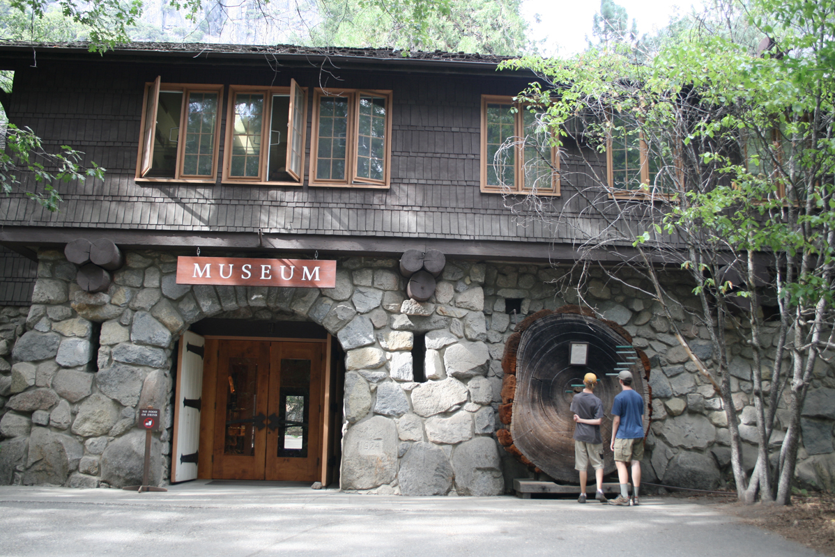 Exterior of the Yosemite Museum — in the Yosemite Village Historic District, Yosemite Valley — Yosemite National Park, California. A Native American museum, focusing on the culture of the Ahwahnechee people who lived in the valley.